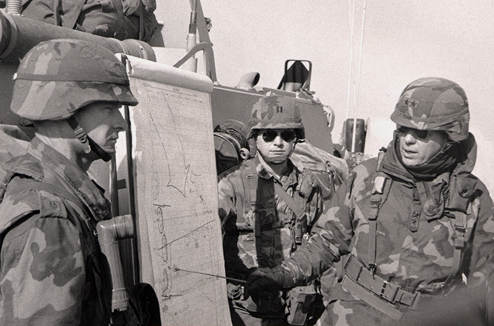 U.S. 3rd Armored Division commander Major General Paul Funk reviews battle plans with Brigade Commanders and aides during the Persian Gulf War, in February 1991. Note the Woodland Camouflage worn during the desert conflict by this Division.